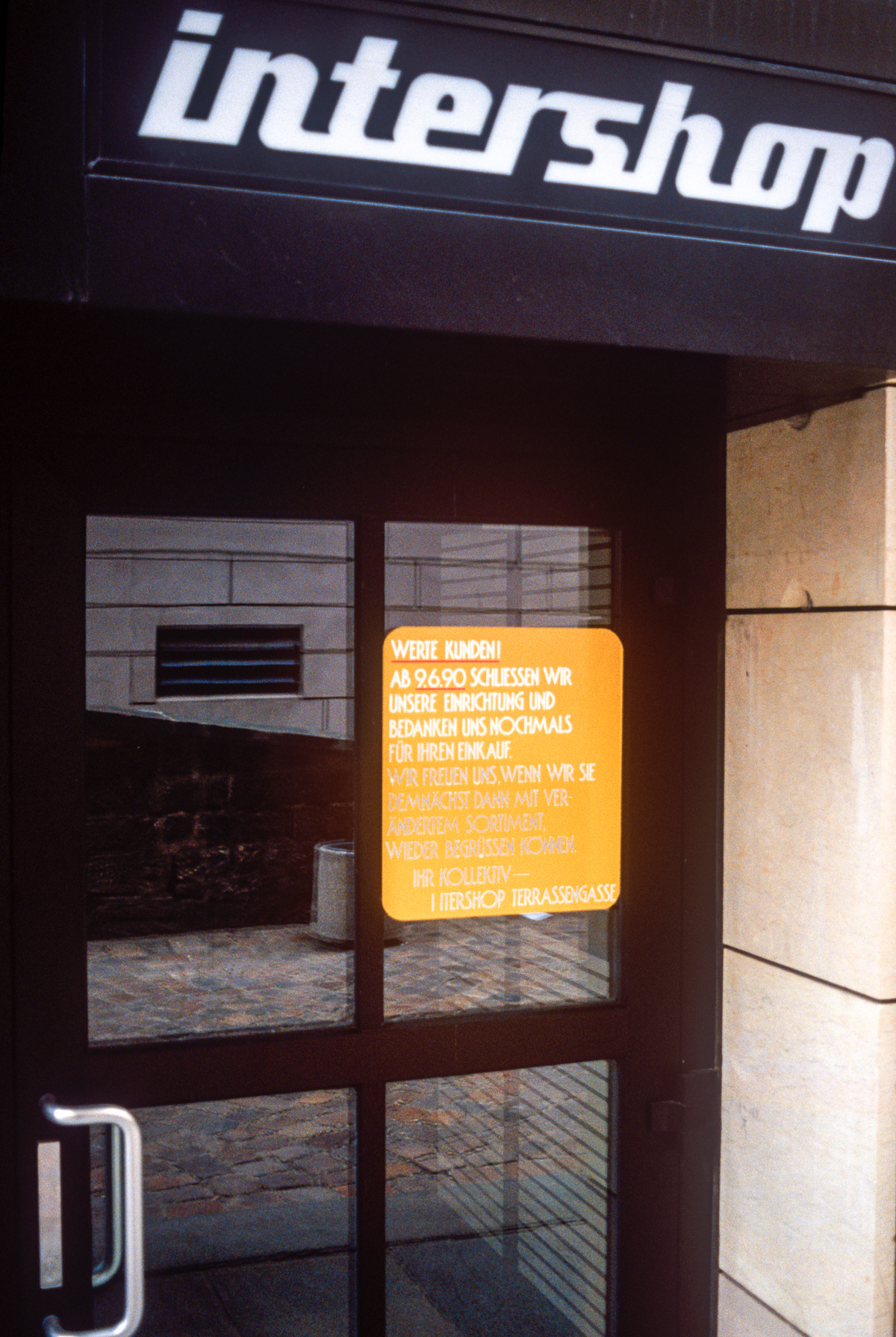 Door sign at a closed Intershop, 1990, Dresden